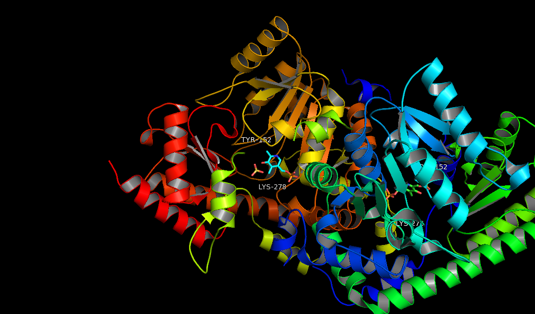 ACS & PLP complex with labeled 278 and 152 residues